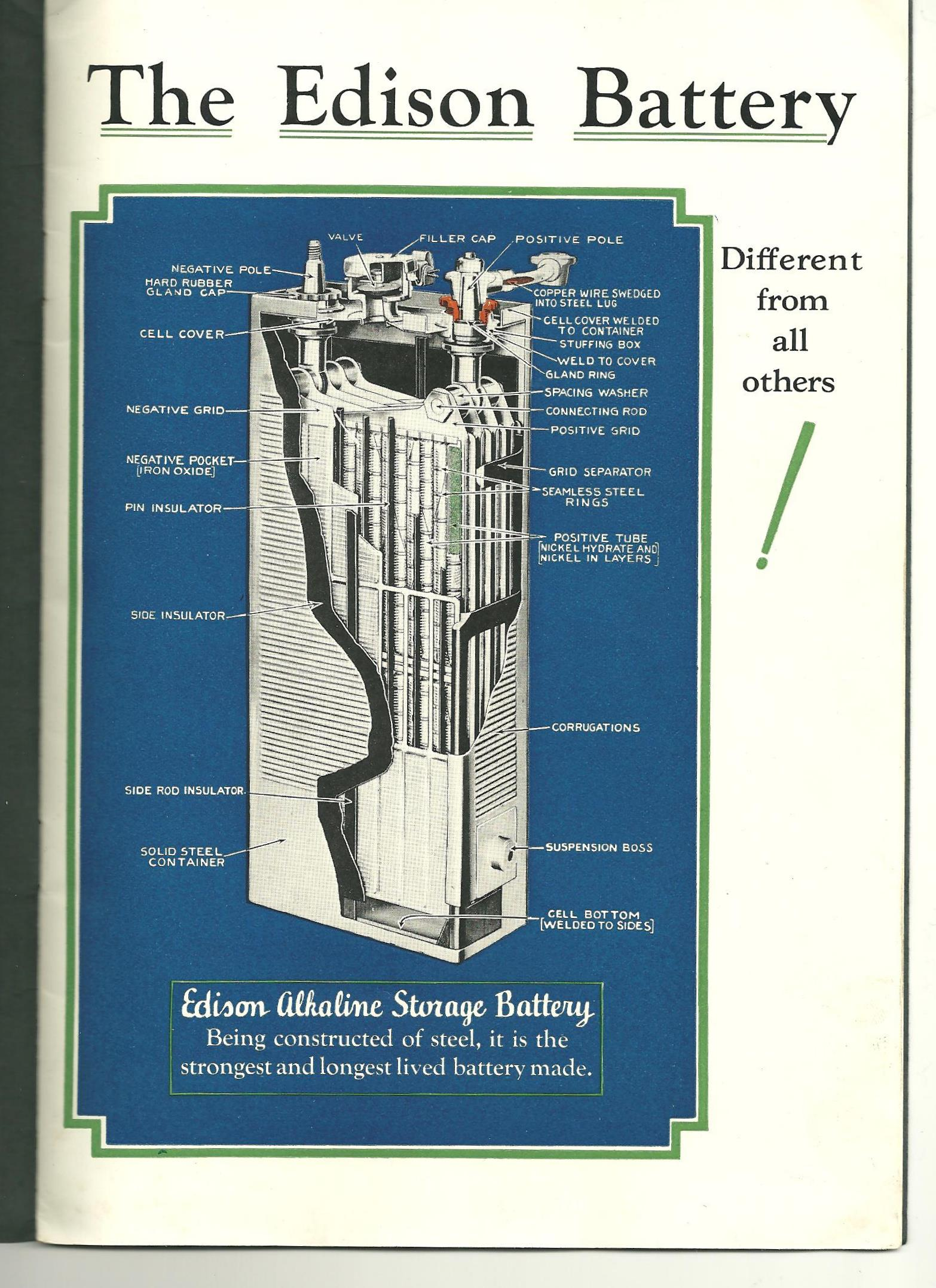 A look inside each part of the Nickel Iron cell.